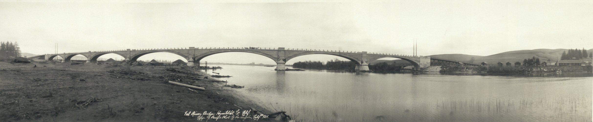 Panoramic photo of Fernbridge Bridge, then called Eel River bridge, Humboldt County, California, United States. c1912.